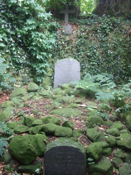 Grave of James Alfred Caulfield (1830-1913), 7th Viscount Charlemont, in the Norman Round Tower on Coney Island